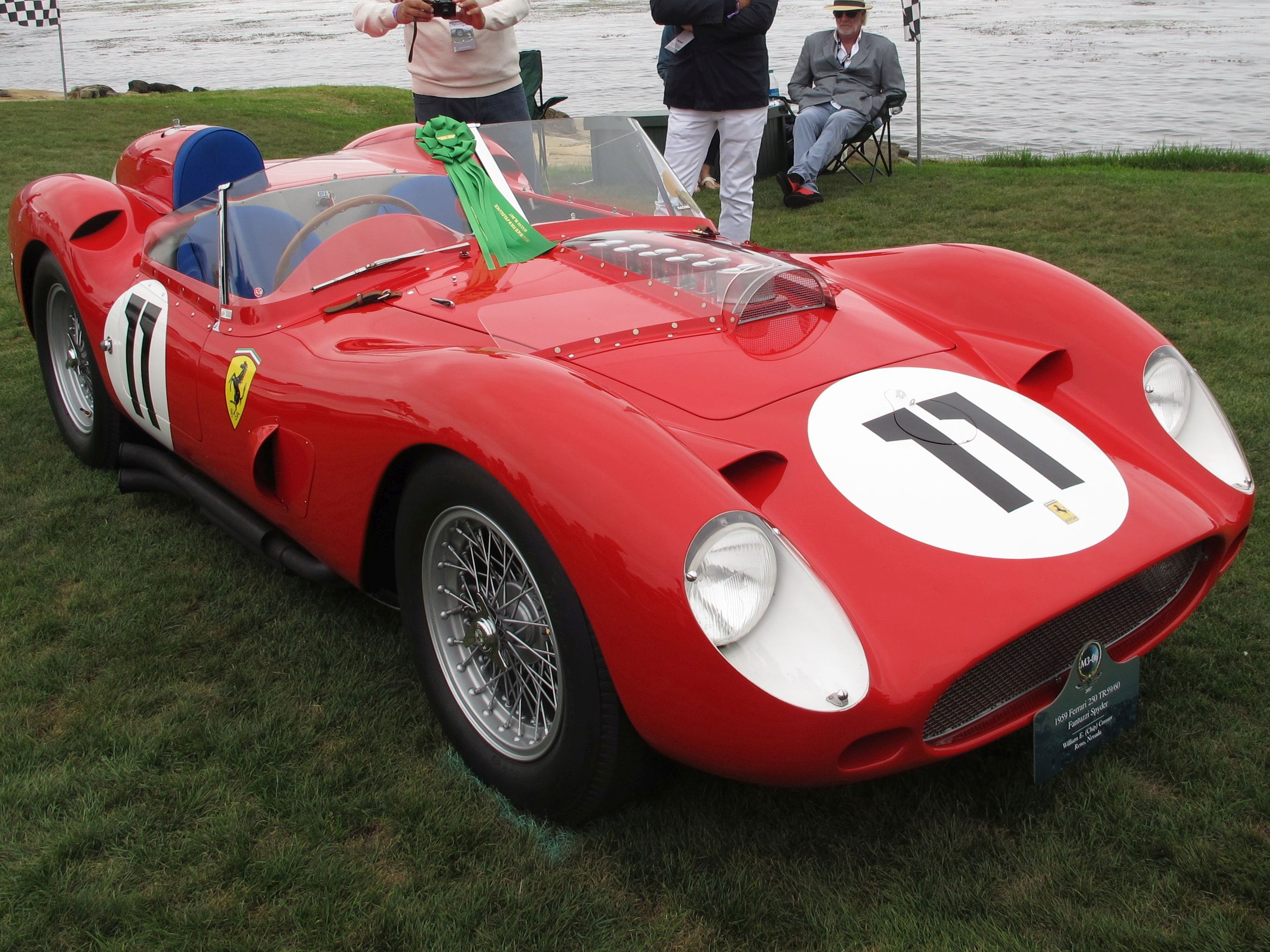 A 1959 Ferrari Testa Rossa 59/60 Fantuzzi Spyder at the 2017 Pebble Beach Concours